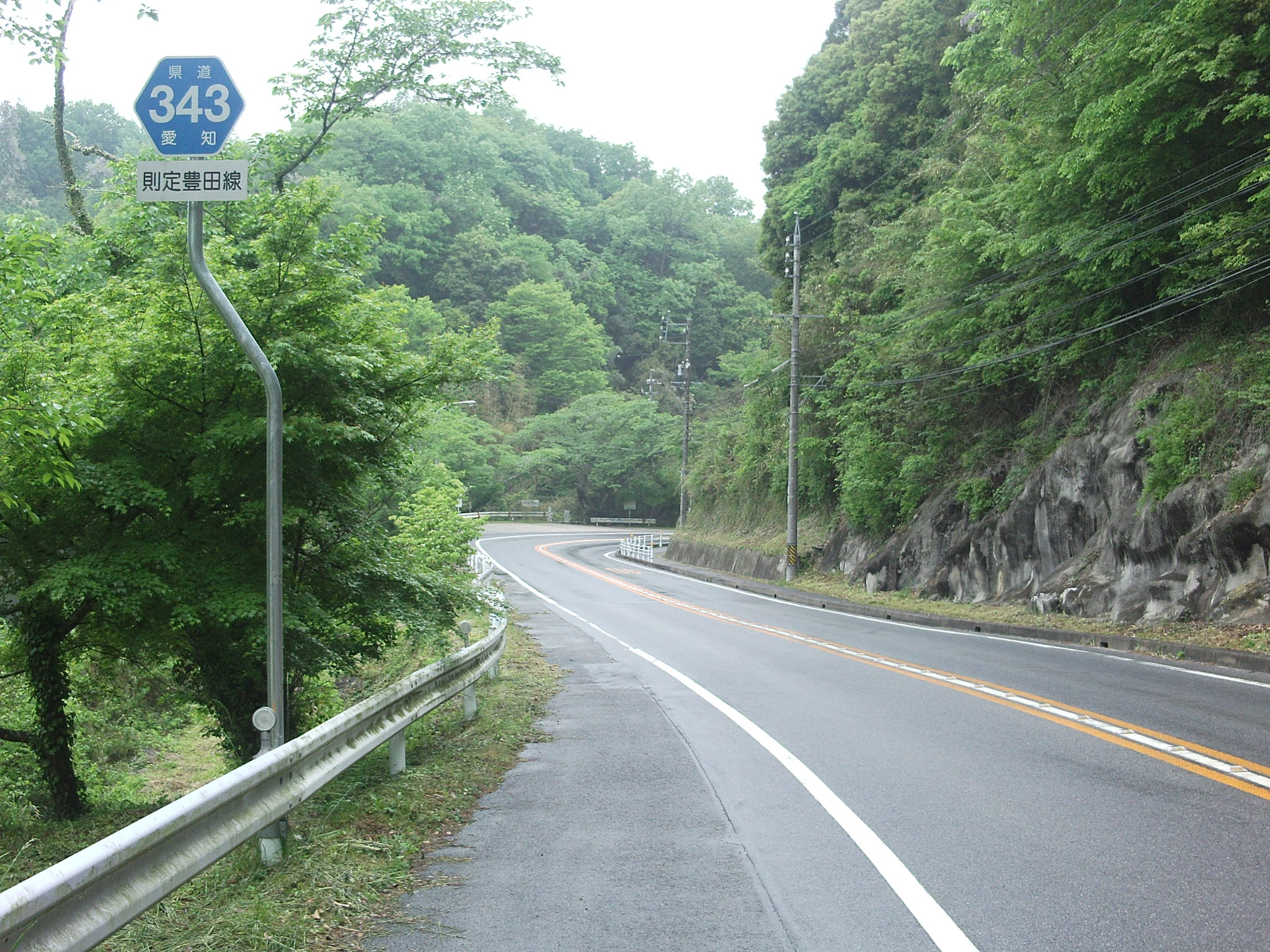 Aichi prefectural road No.343 in Norisadacho, Toyota, Aichi.